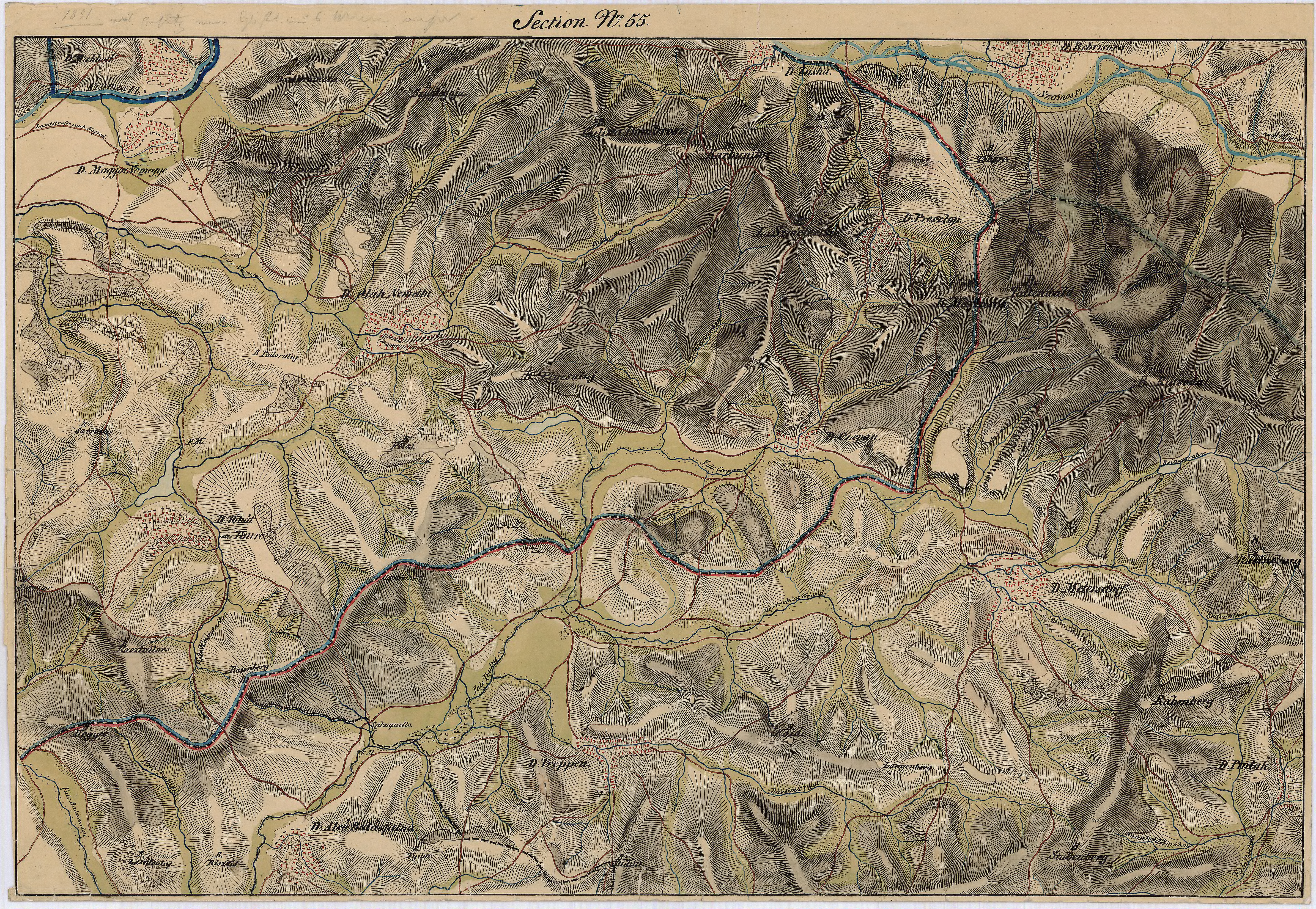 Grand Duchy of Transylvania, 1769-1773. Josephinische Landaufnahme pg.055